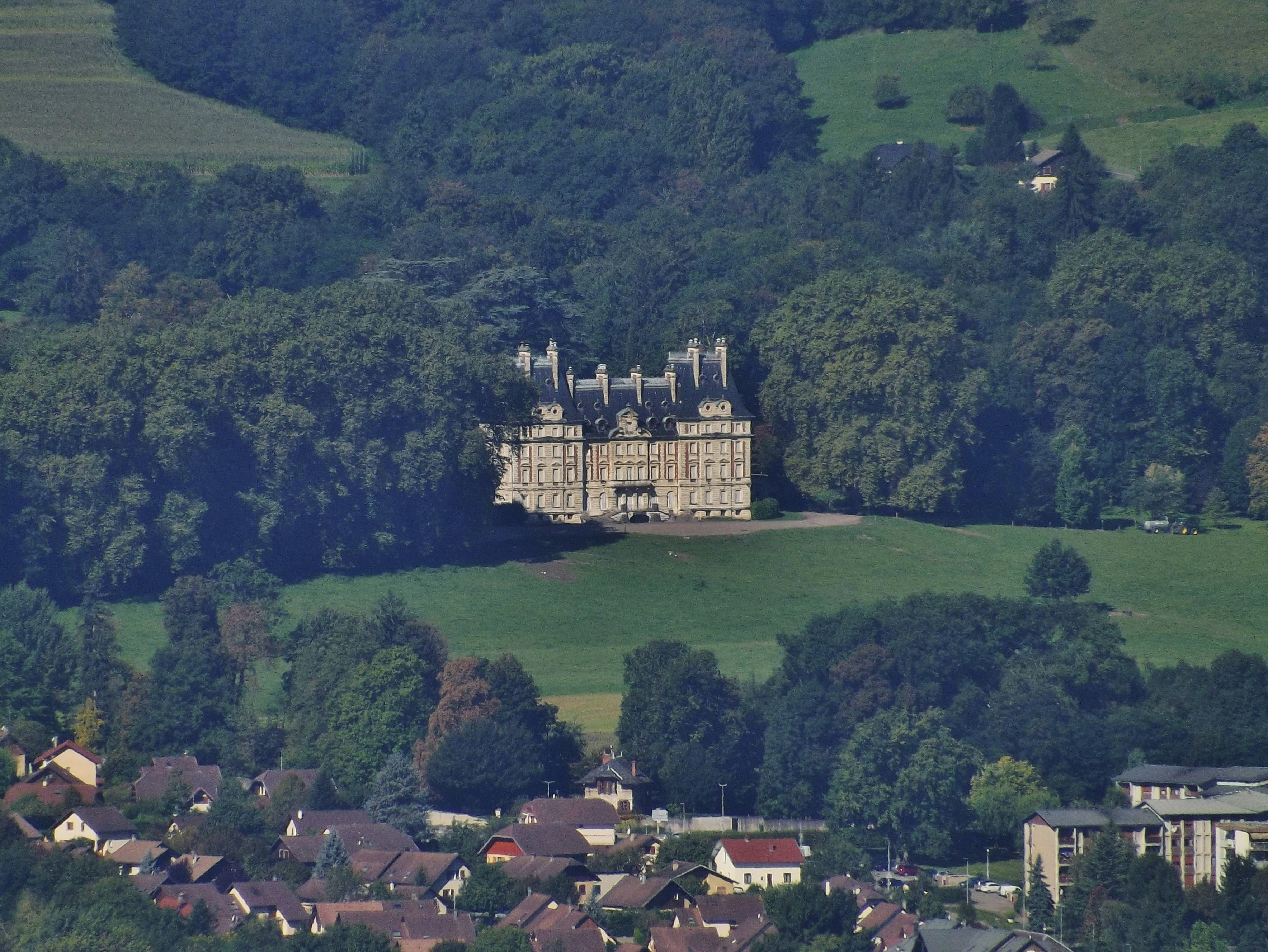 Sight of the château Reinach castle and its yards in La Motte-Servolex, seen from Les Monts near Chambéry, in Savoie, France.